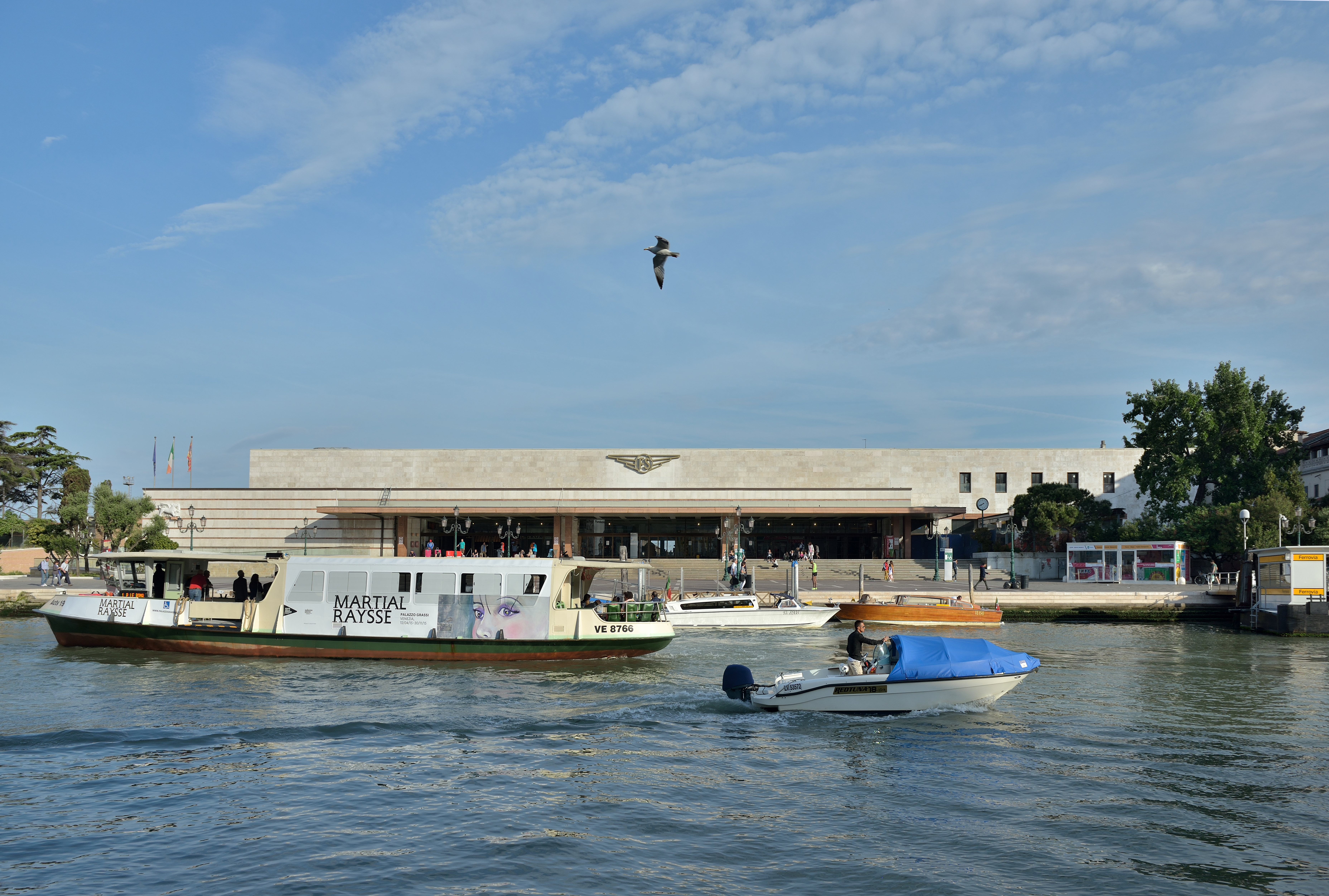 Vaporetto on the Canal Grande and the Santa Lucia station in Venice.